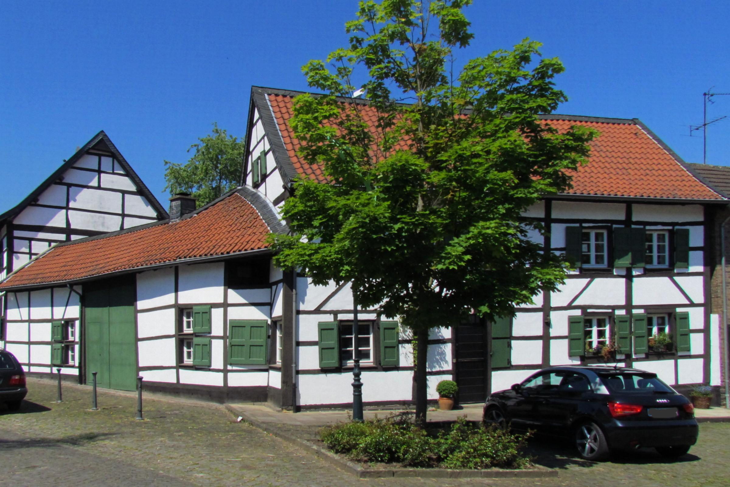 This is a photograph of an architectural monument.It is on the list of cultural monuments of Korschenbroich